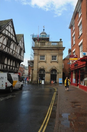 TOWN HALL LOCATED IN THE HISTORIC AREA